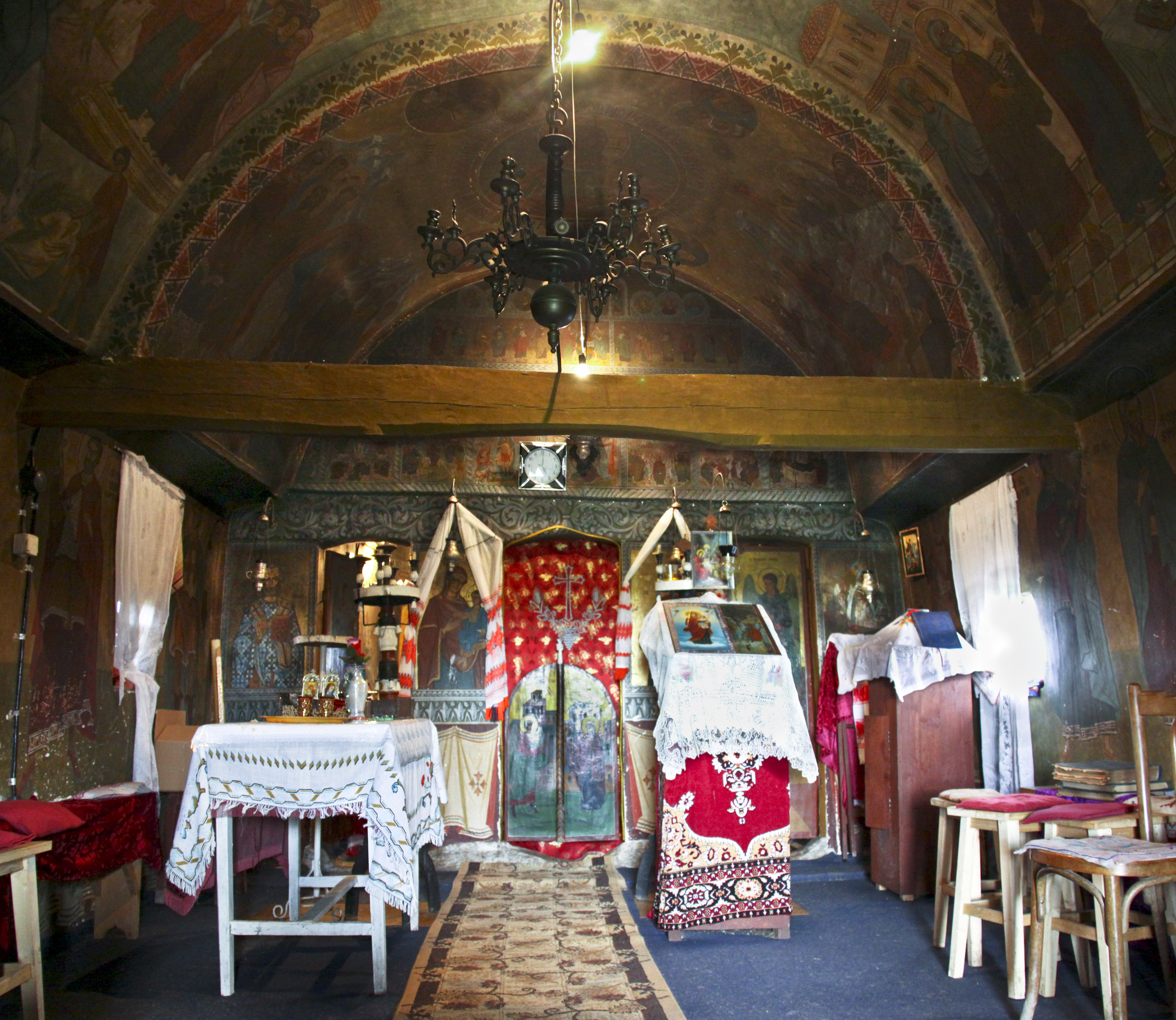 Priseaca, Olt, Romania: the wooden church tranferred from Marineşti, Gorj county.